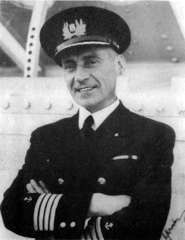 Capt. Mamert Stankiewicz, the commander of M/S Pilsudski